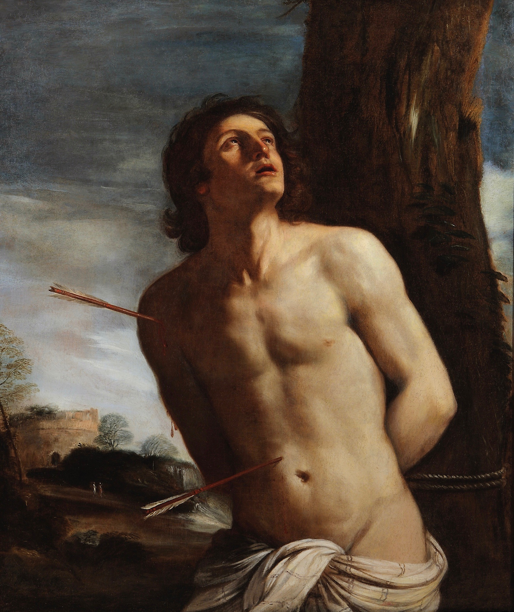 One of Guercino's 17th century paintings of Saint Sebastian. Property of Federico Castelluccio.